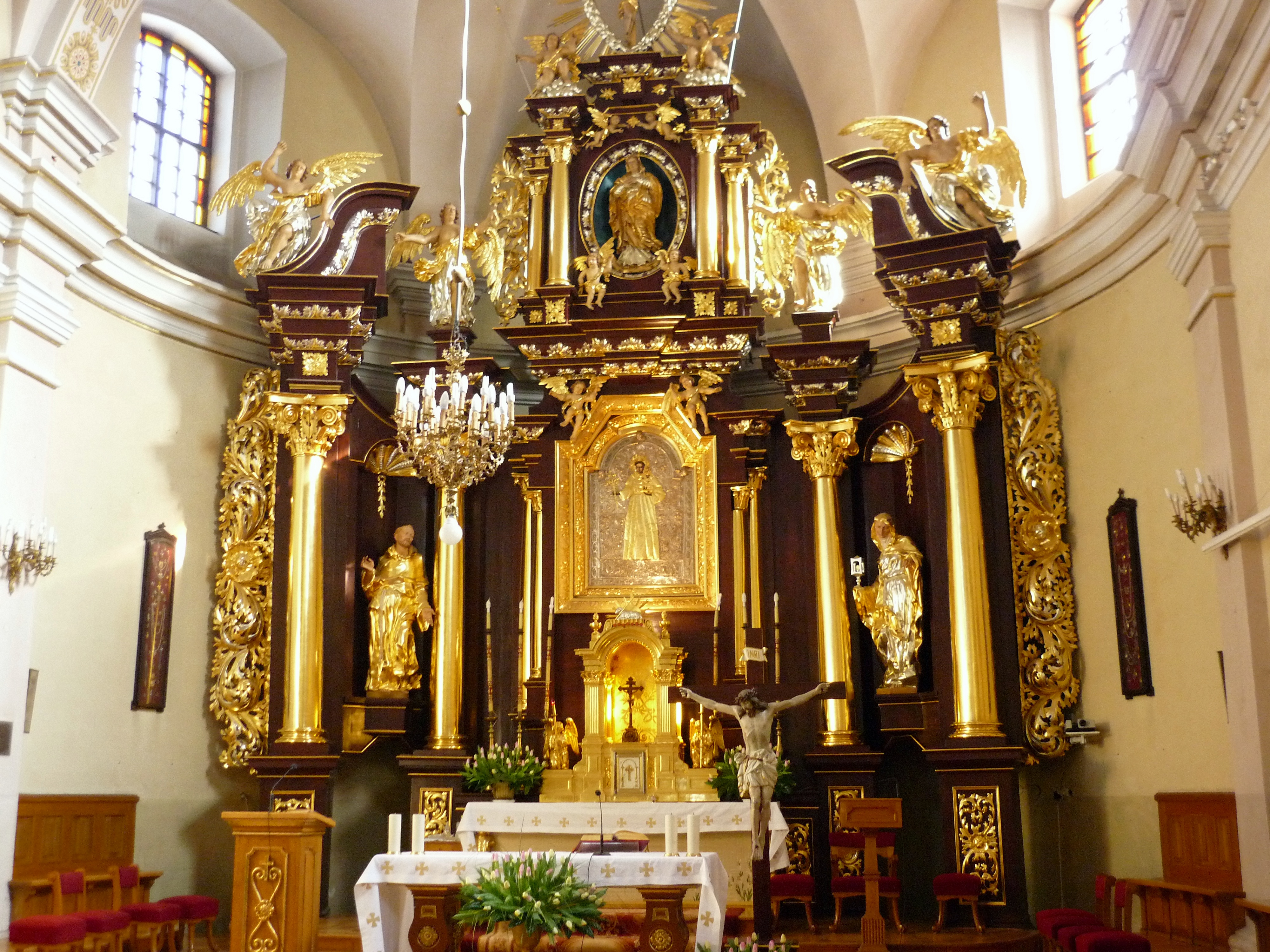 Łódź-Łagiewniki (Poland), St. Anthony of Padua Church - main altar